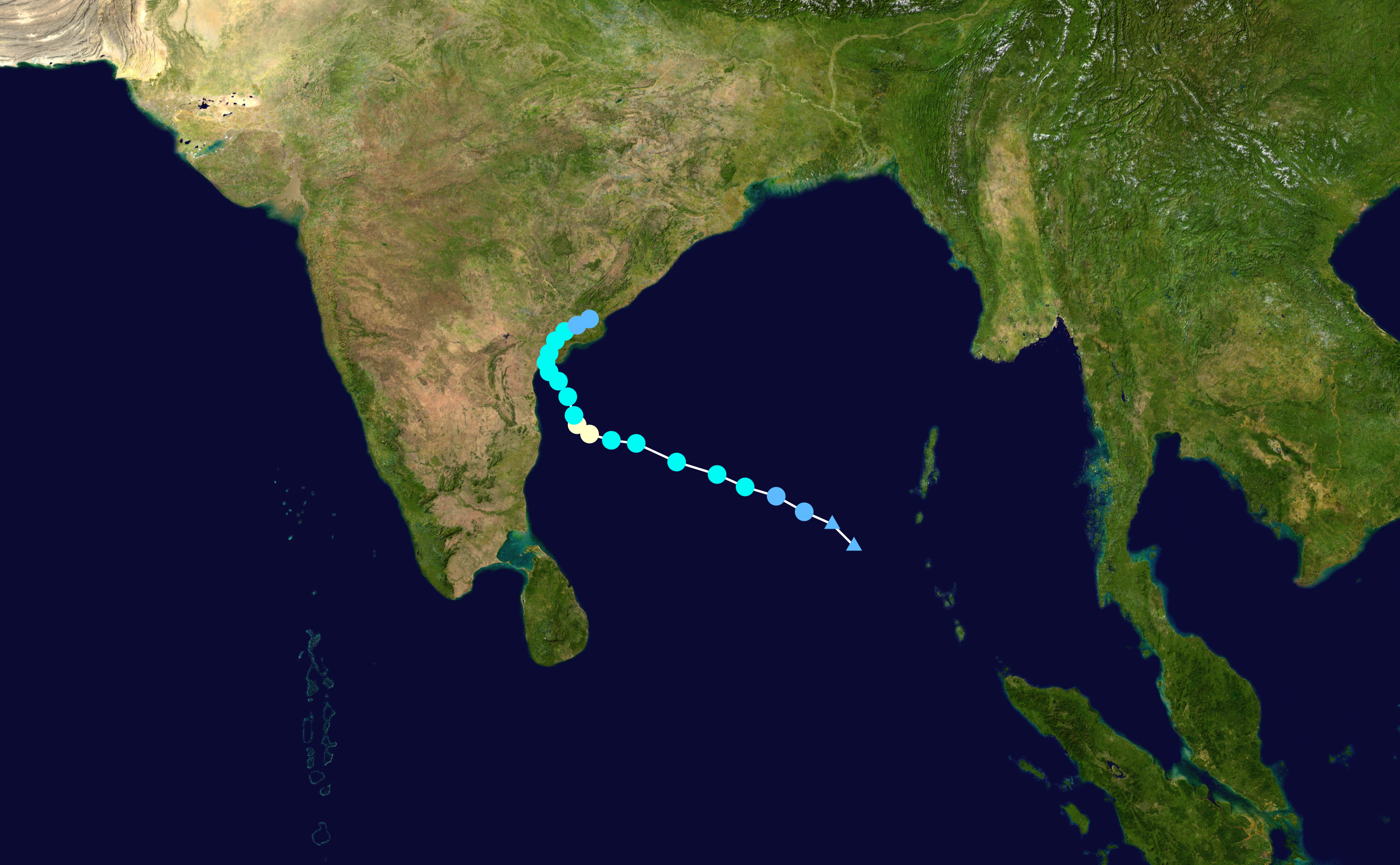 Track map of Severe Cyclonic Storm Laila of the 2010 North Indian Ocean cyclone season. The points show the location of the storm at 6-hour intervals. The colour represents the storm's maximum sustained wind speeds as classified in the Saffir–Simpson scale (see below), and the shape of the data points represent the nature of the storm, according to the legend below. Saffir–Simpson scale Tropical depression≤38 mph≤62 km/h Category 3111–129 mph178–208 km/h Tropical storm39–73 mph63–118 km/h Category 4130–156 mph209–251 km/h Category 174–95 mph119–153 km/h Category 5≥157 mph≥252 km/h Category 296–110 mph154–177 km/h Unknown Storm type Tropical cyclone Subtropical cyclone Extratropical cyclone / Remnant low / Tropical disturbance / Monsoon depression